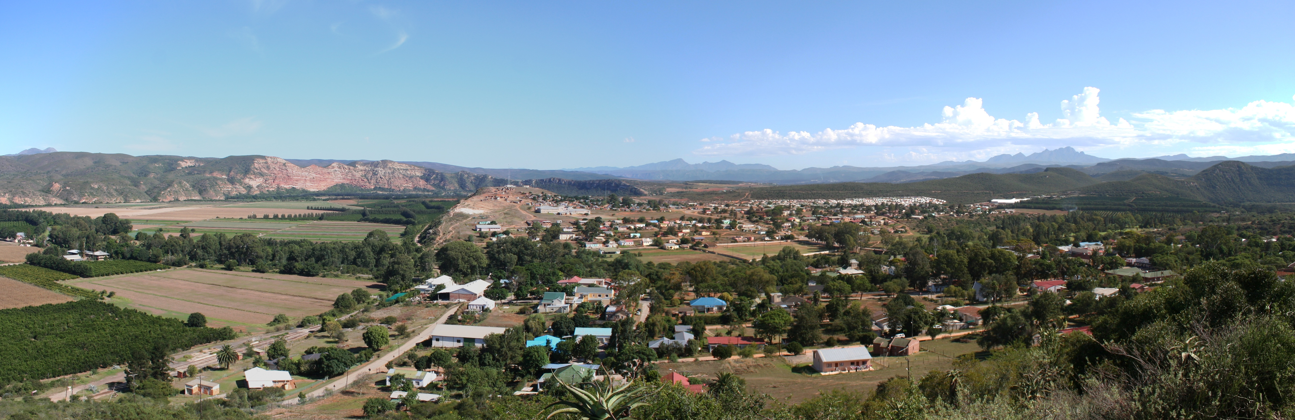 The town of Hankey, Eastern Cape, South Africa. Viewed from the hill at Saartjie Baartman's grave.